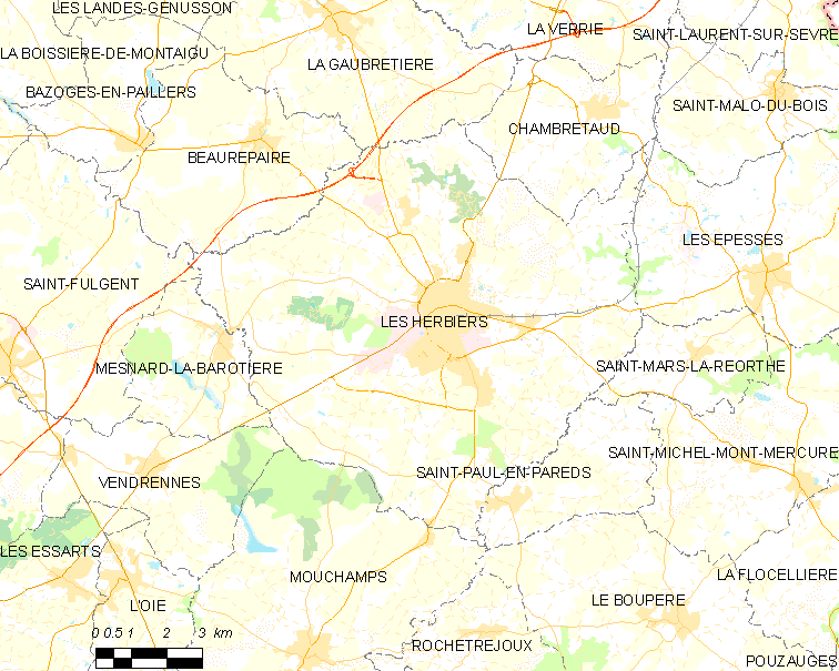 Map of French municipality Les Herbiers